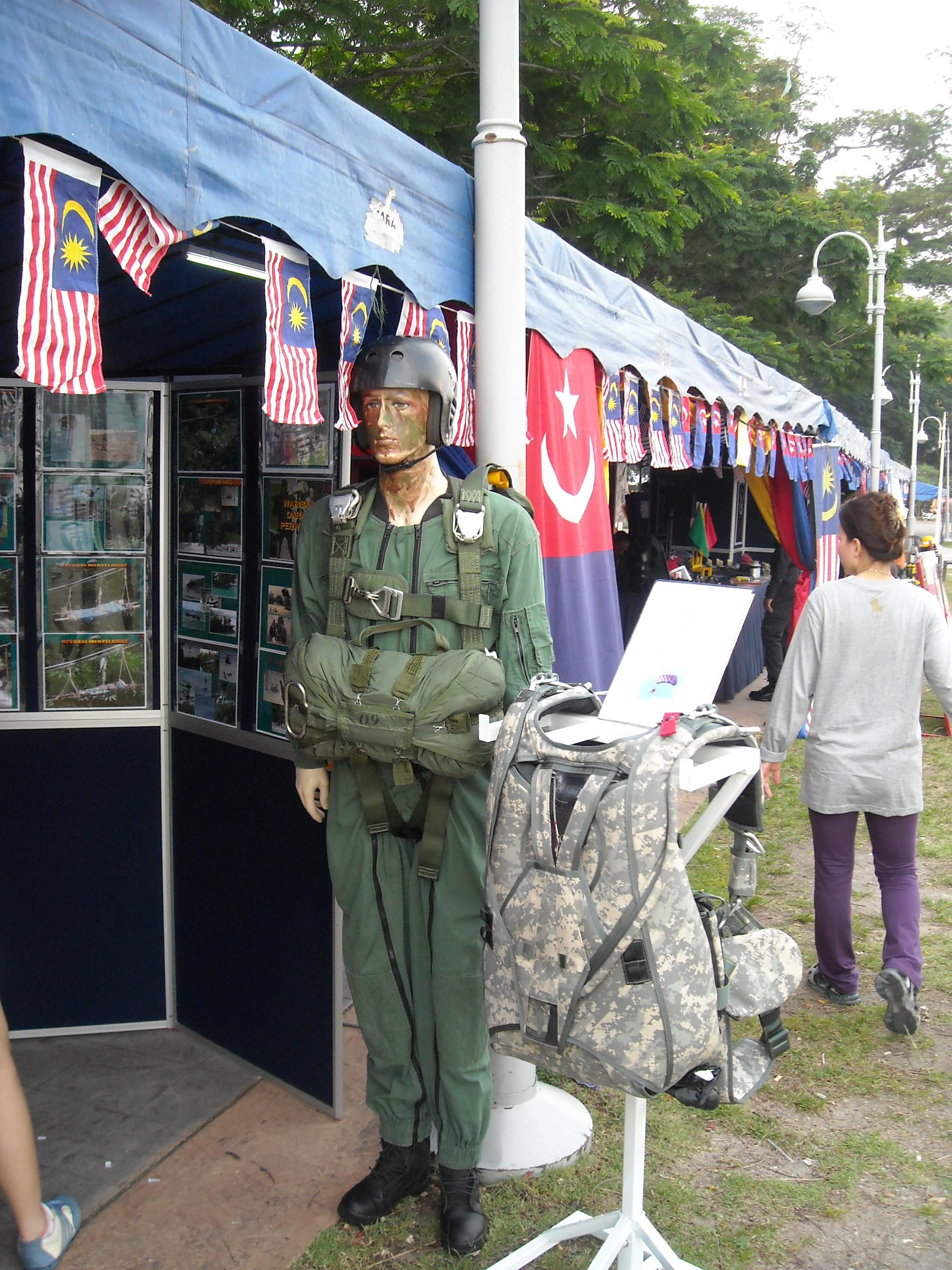 The model of VAT 69 Pasukan Gerakan Khas with the HALO/HAHO equipment. Taken by me at National Community Policing of 2009 exhibitions at Muar, Johore.